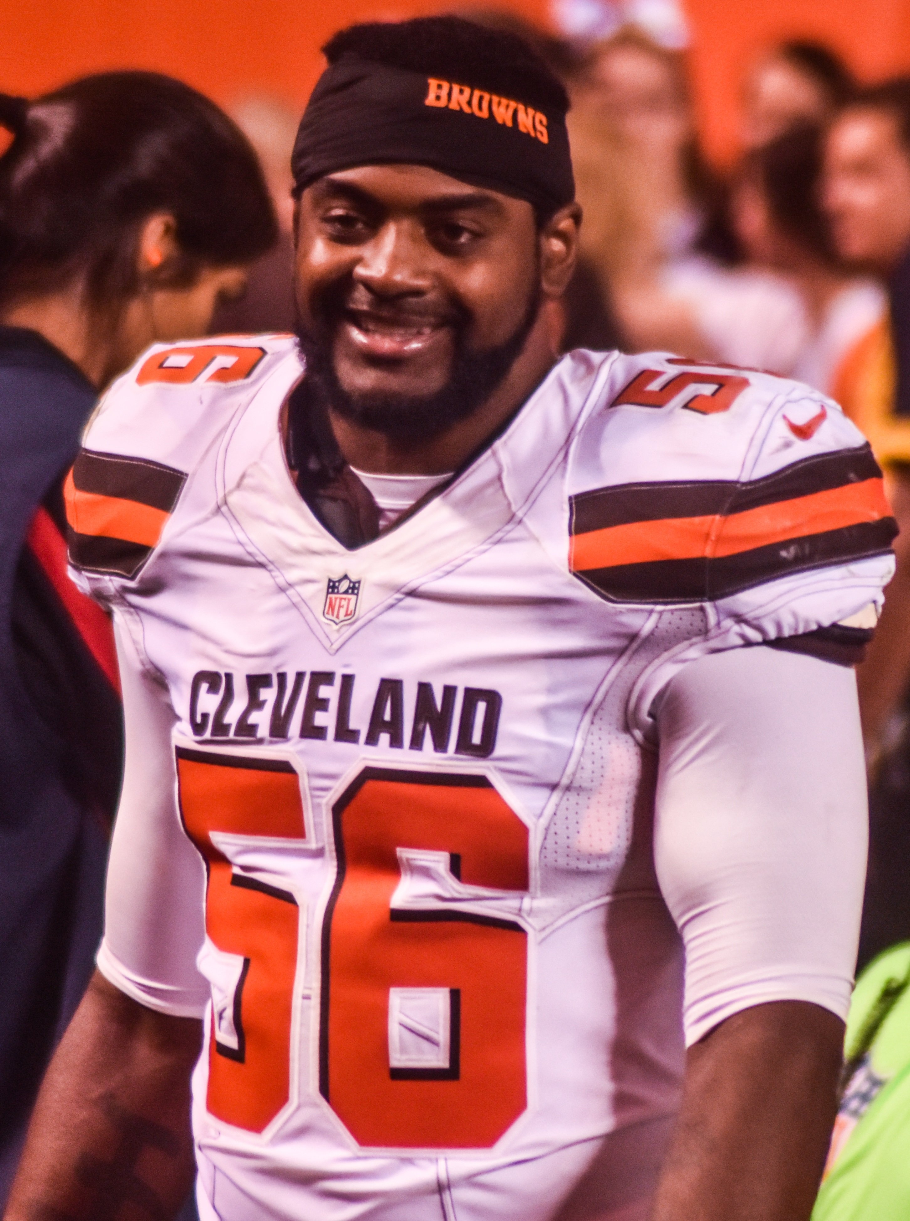 Browns vs Bills